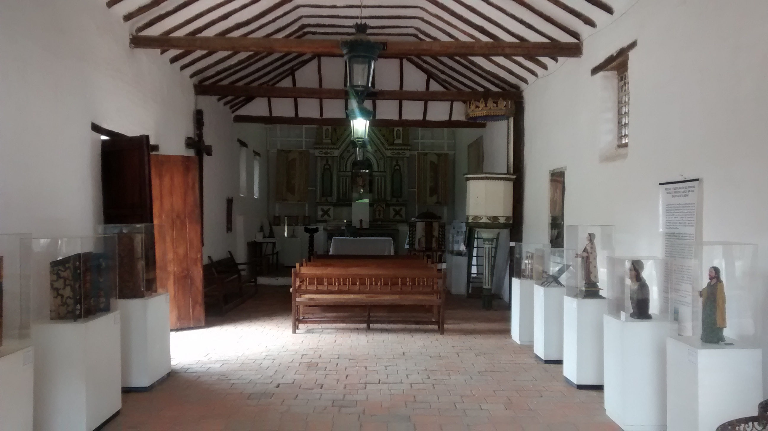 Inside of Saint John Chapel, Toro, Colombia